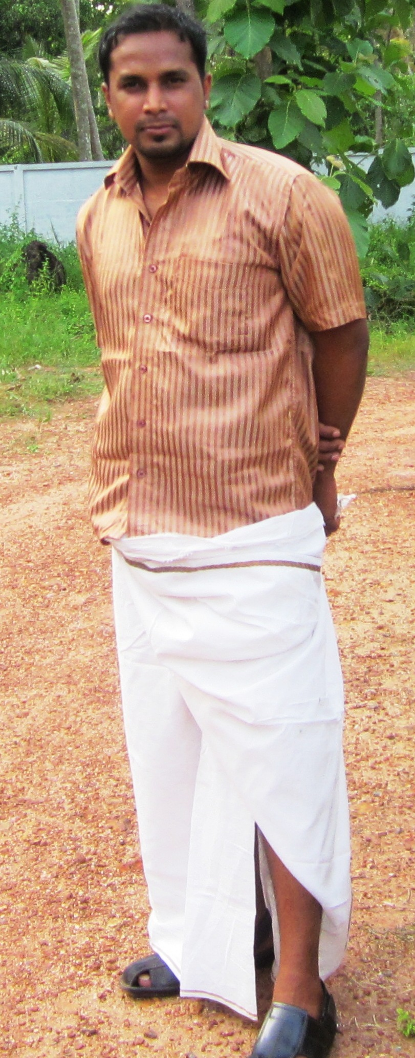 A malayalee man wearing a Mundu with Shirt.